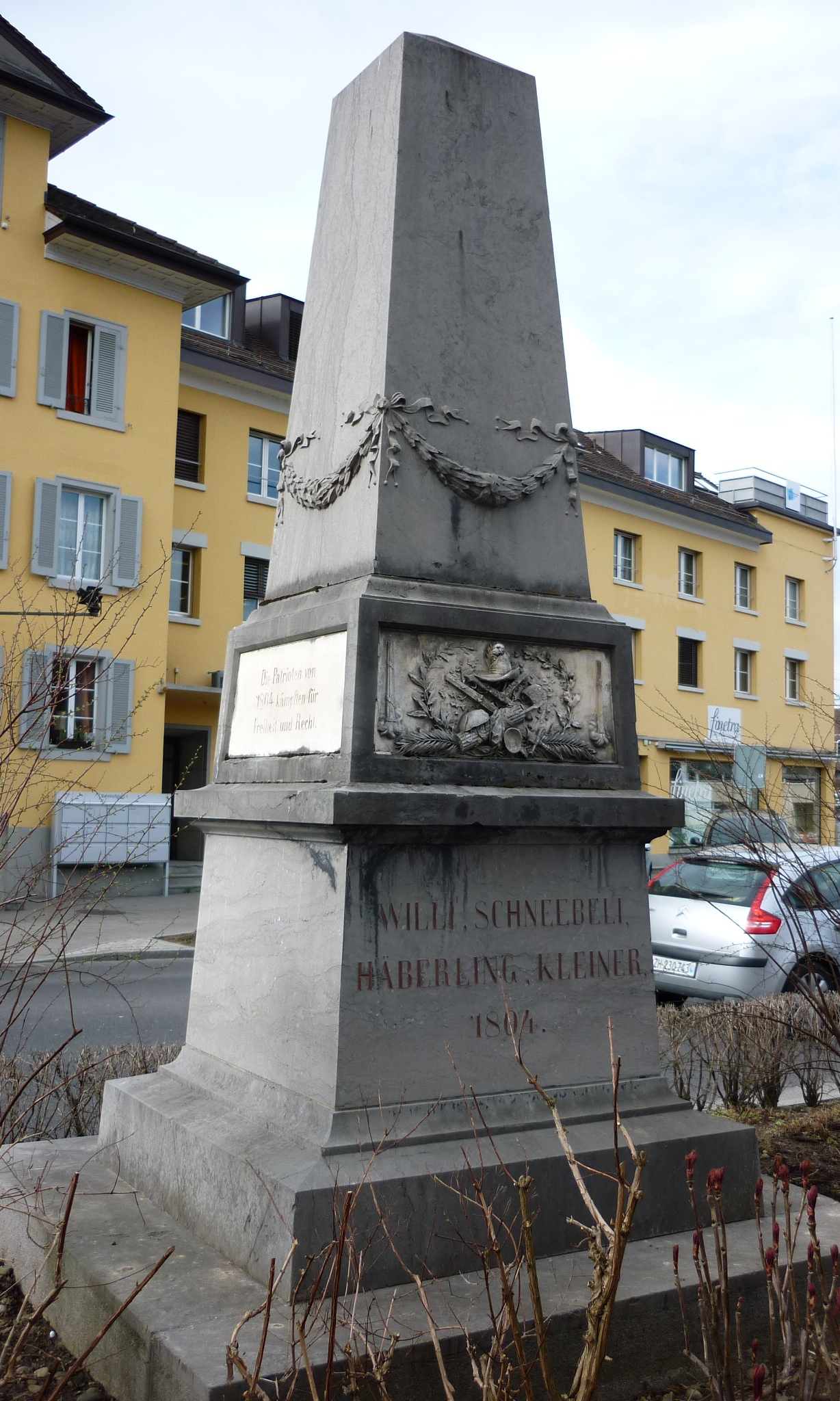 Bocken war monument, Affoltern am Albis ZH, Switzerland